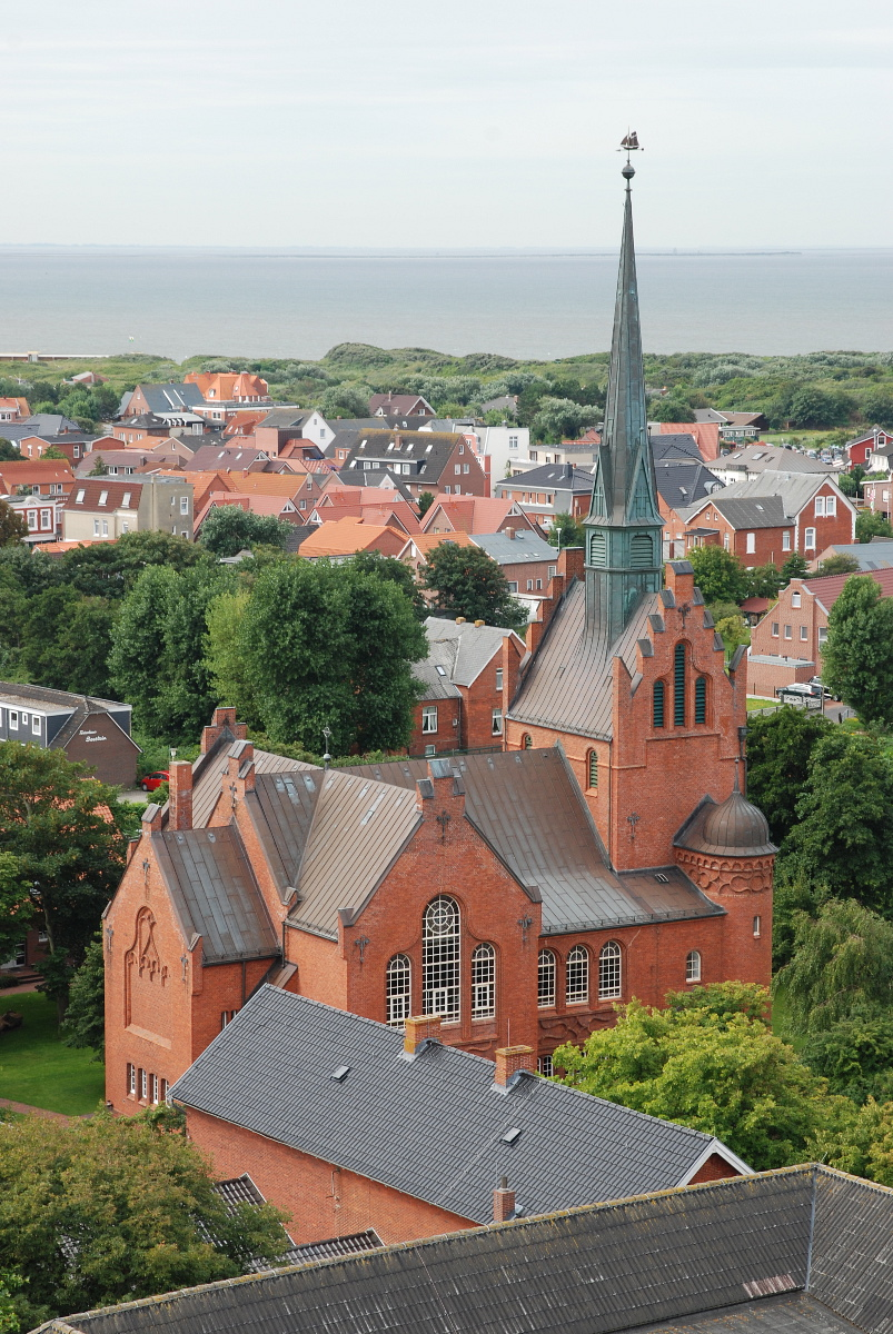 Protestant Reformed Church on the island of Borkum, East Frisia, Germany; seen from the "Old Lighthouse"